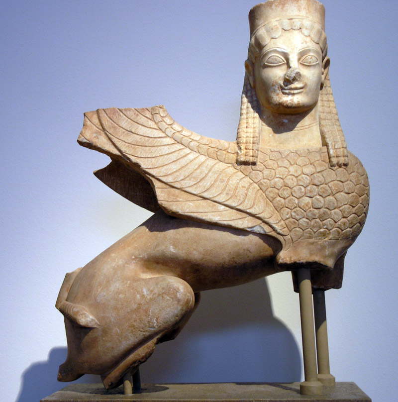 Archaic funerary sphinx wearing a pōlos, formerly topping a stele. Pentelic marble, ca. 570–550 BC. Found in Spata (Attica). National Archaeological Museum in Athens, 28. H. 45 cm (17 ½ in.).